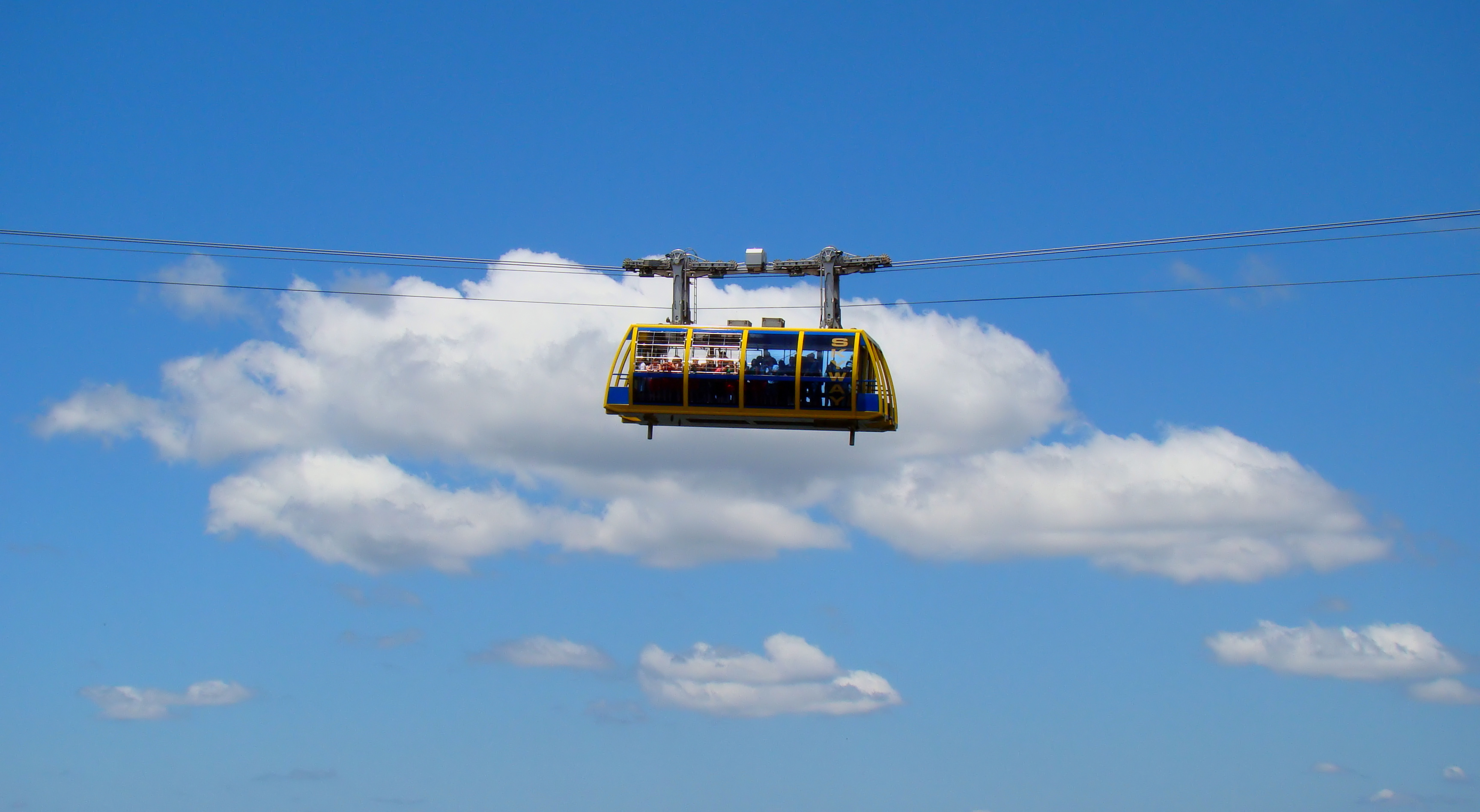 The new (since 2004) Scenic Skyway ride in Scenic World Katoomba. The cabin can take up to 84 persons, and it travels up to 200 metres above the ground across the gorge above the Katoomba Falls in the Blue Mountains.